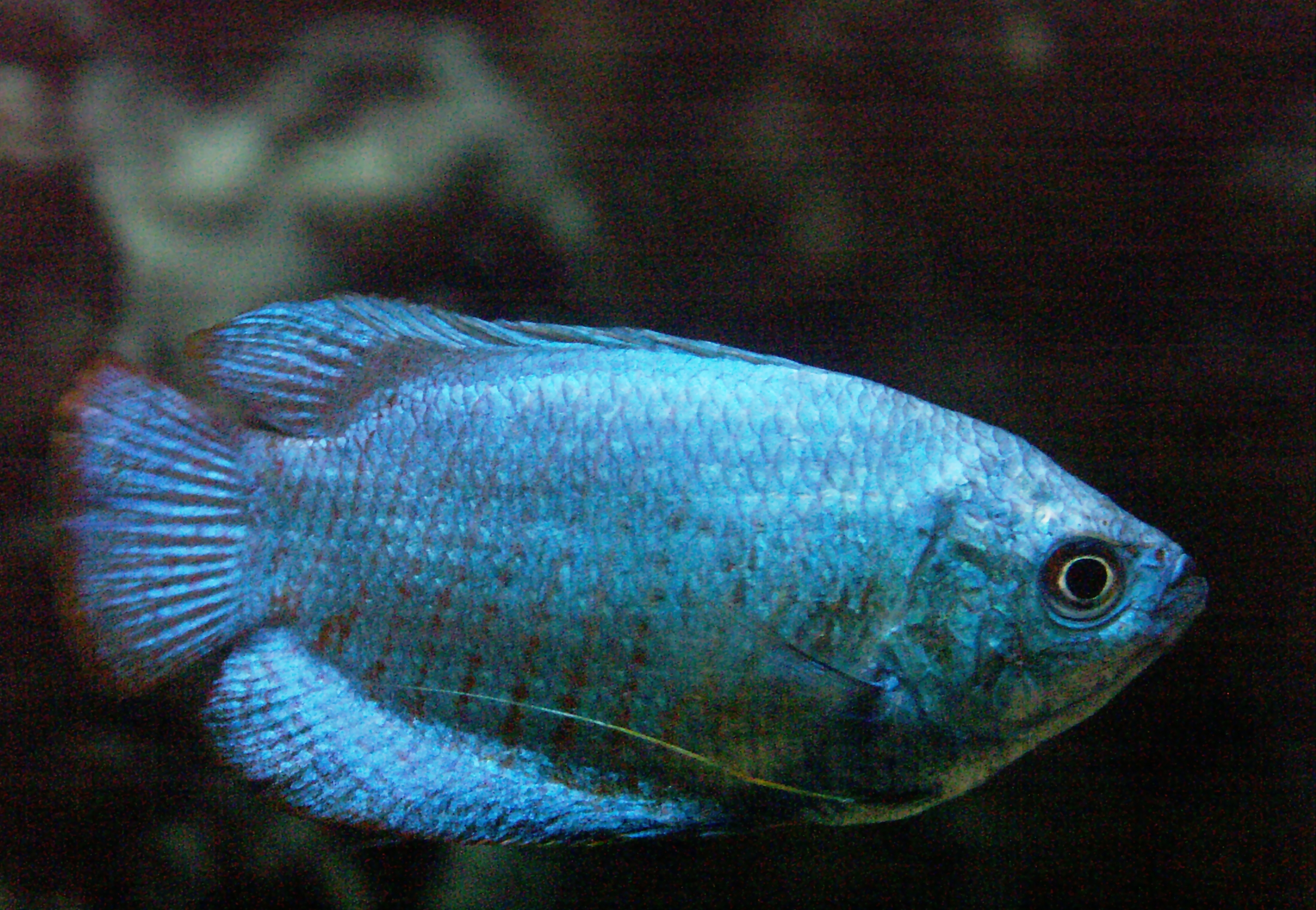 Common name: Neon Blue Dwarf Gourami Scientific name: Colisa lalia Source: Fred Hsu, October 2005.